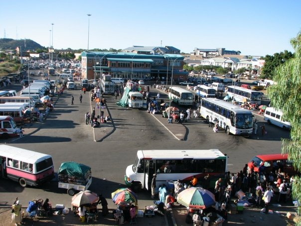 Franscistown Bus termial